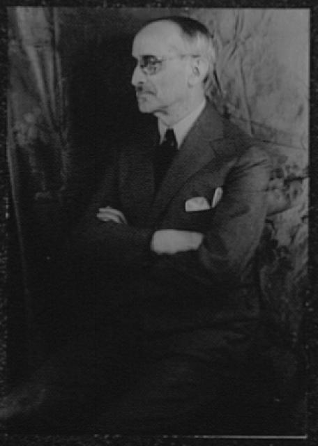 Title: Portrait of Dr. Albert Ashton Berg Physical description: 1 photographic print : gelatin silver. Notes: Title derived from information on verso of photographic print.; Van Vechten number: X HH 2.; Also available on microfilm.; Gift; Carl Van Vechten Estate; 1966.; Forms part of: Portrait photographs of celebrities, a LOT which in turn forms part of the Carl Van Vechten photograph collection (Library of Congress).